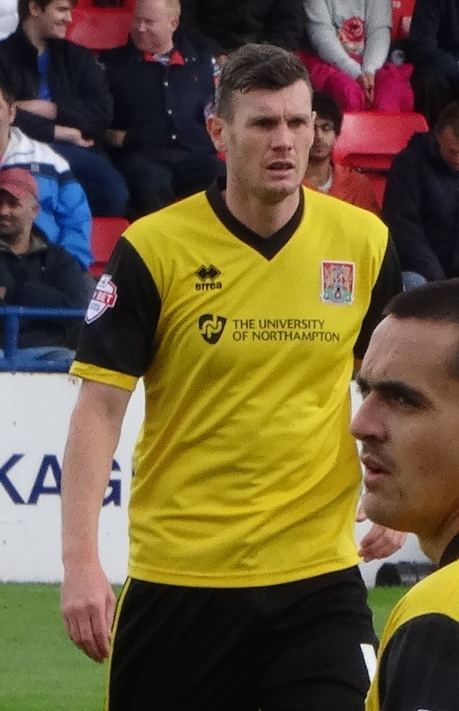 Zander Diamond playing for Northampton Town against York City at Bootham Crescent, York on 16 August 2014